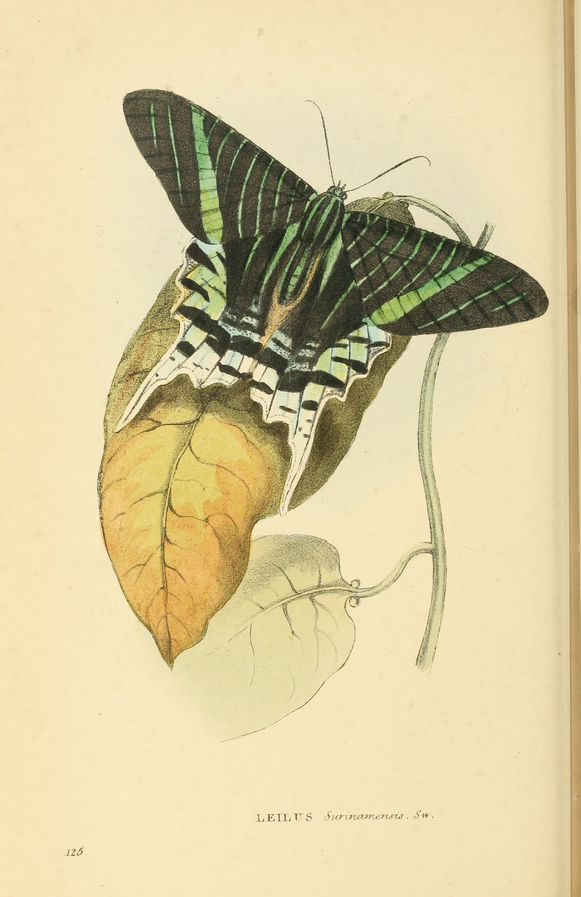 Plate from Zoological illustrations, Volume 3, 2nd series. Leilus Surinamensis = Papilio Leilus L. Accepted as Urania leilus[1]